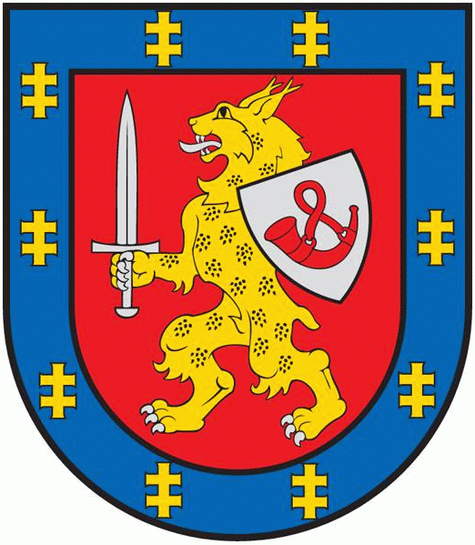 Coat of arms of Tauragė County, Lithuania